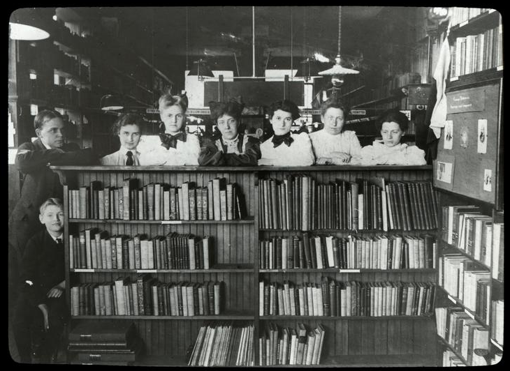 Webster: Interior views, Webster Free Circulating Library staff, overlooking collection of music and arts